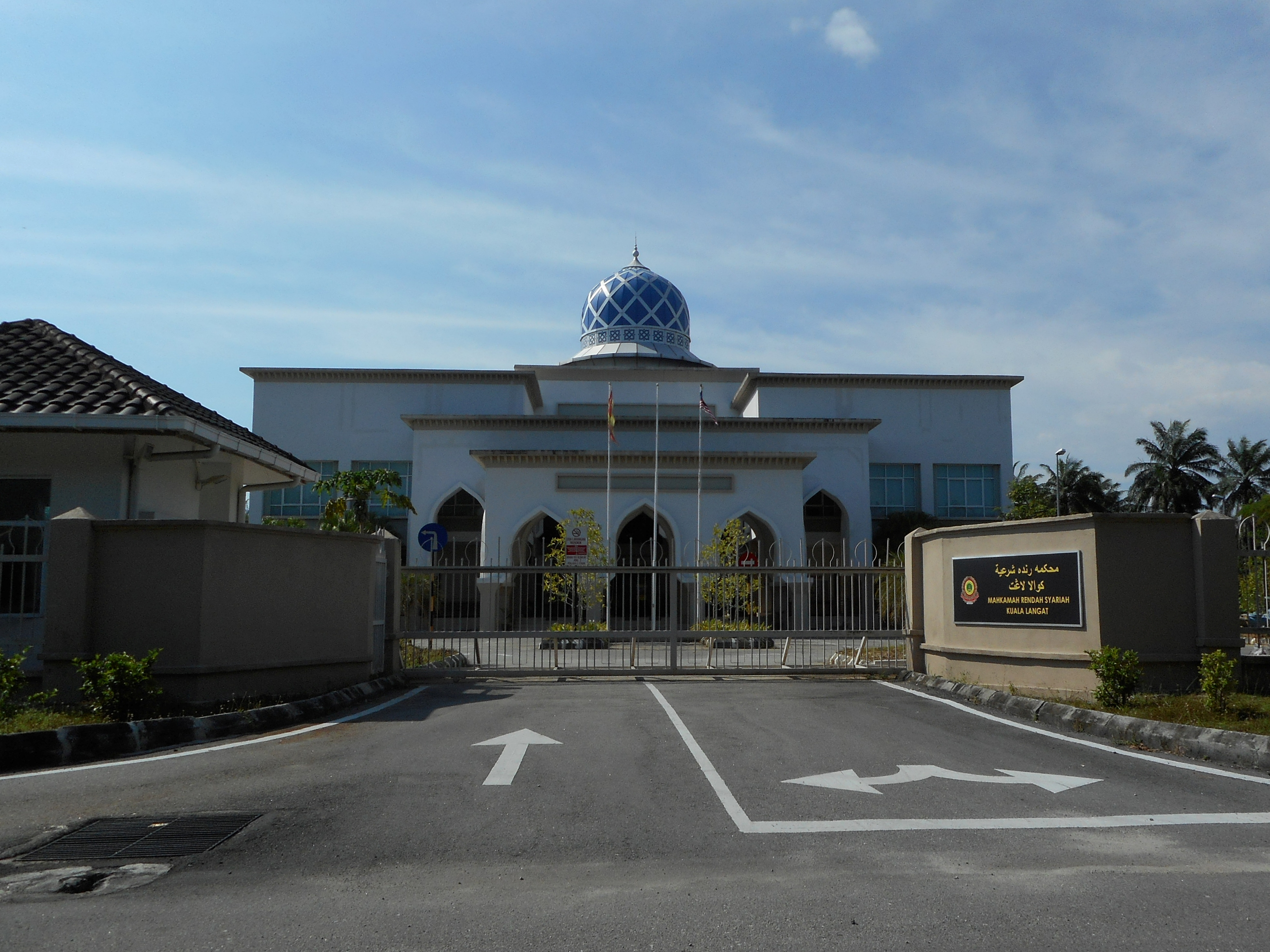 Kuala Langat Syariah Lower Court, Kuala Langat, Selangor, Malaysia